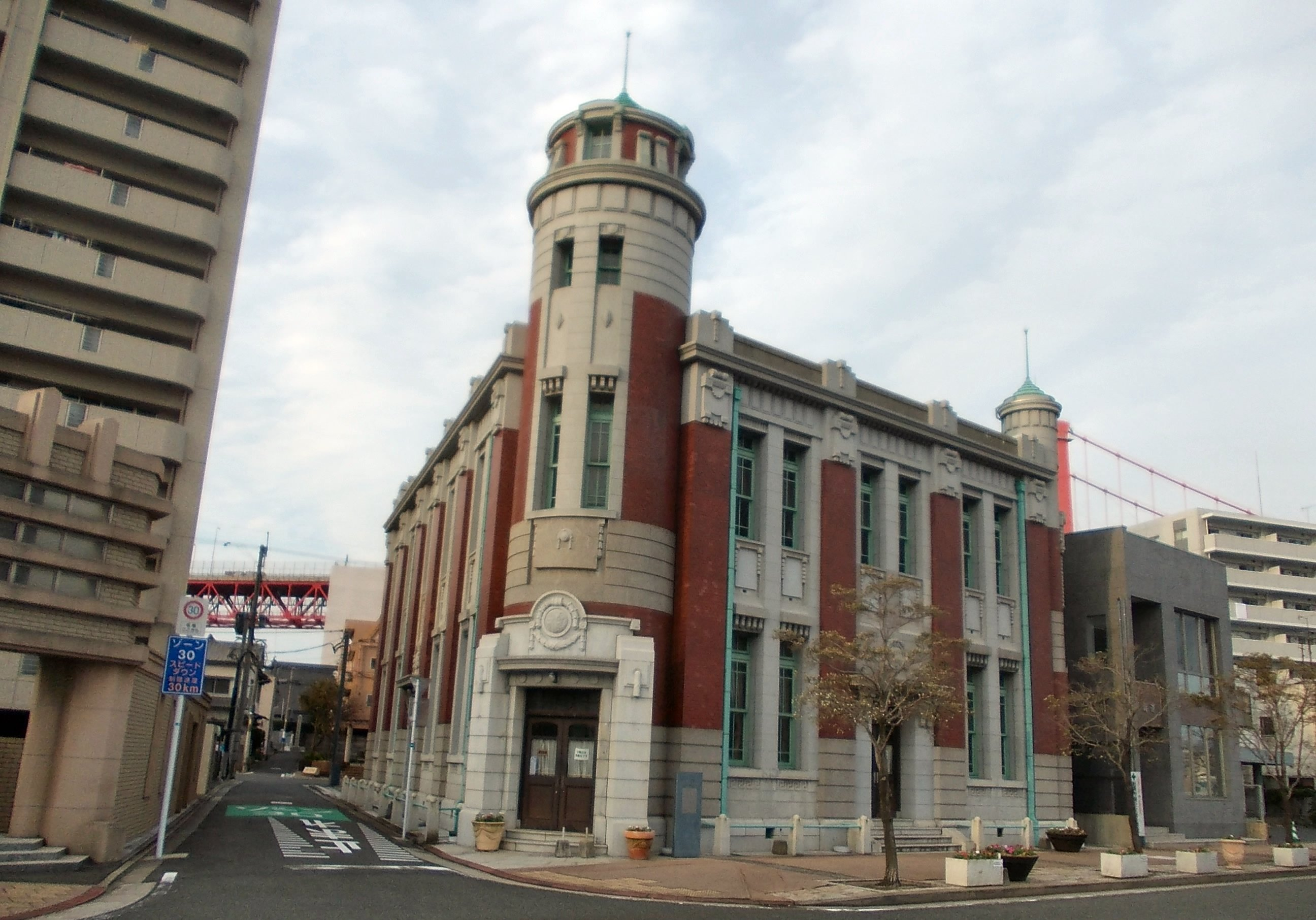 The former Furukawa Mining Wakamatsu Building in Wakamatsu-ku, Kitakyushu, Japan